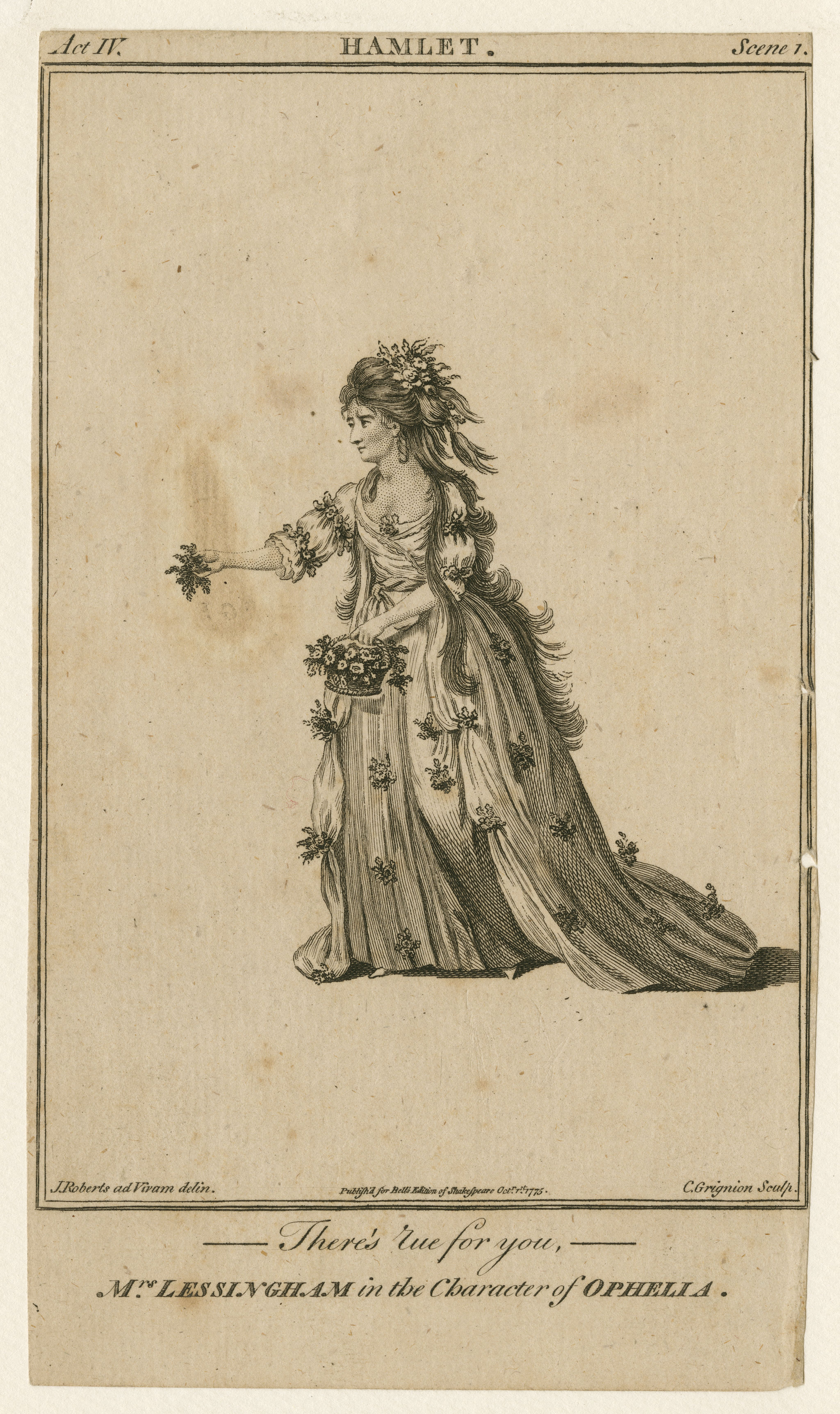 Mrs. Lessingham in the character of Ophelia from Hamlet. Inscription" "There's rue for you ... / J. Roberts, ad vivam delin. ; C. Grignion, sculp"